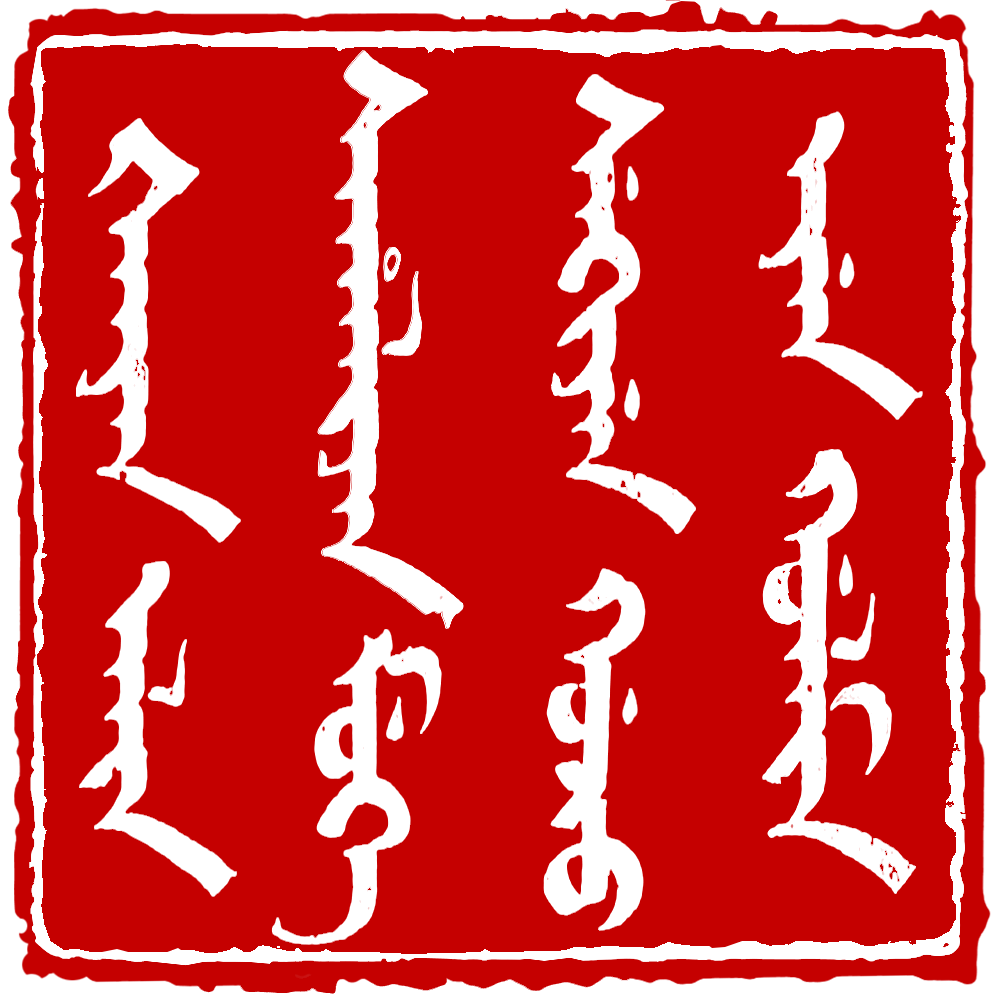 A Manchu seal "Xanggiyan alin sahaliyan muke, sekiyen goro eyen golmin" with characters in white.